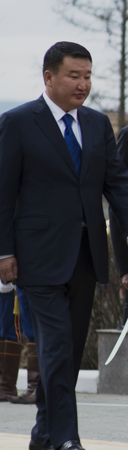 U.S. Defense Secretary Chuck Hagel, right, walks in a pass-and-review ceremony with Mongolian Defense Minister Dashdemberal Bat-Erdene during an honor cordon at the Mongolian Ministry of Defense in Ulaanbaatar, Mongolia, April 10, 2014. Hagel met with his counterparts to discuss issues of mutual importance.